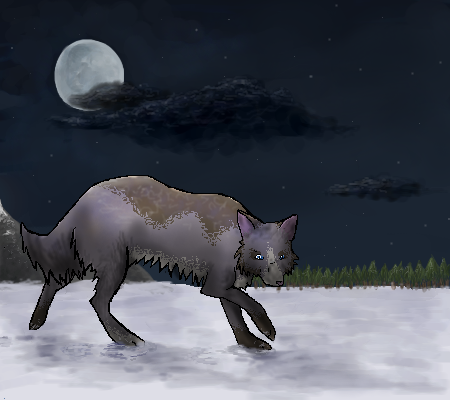 drawn in Shi-Painter with tablet